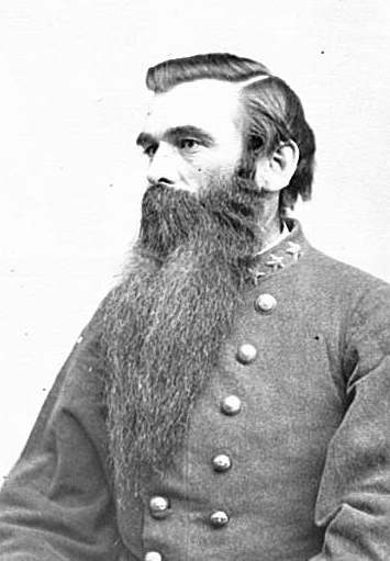 Title: Portrait of Col. John S. Green, officer of the Confederate Army Abstract: Selected Civil War photographs, 1861-1865 (Library of Congress) Physical description: 1 negative